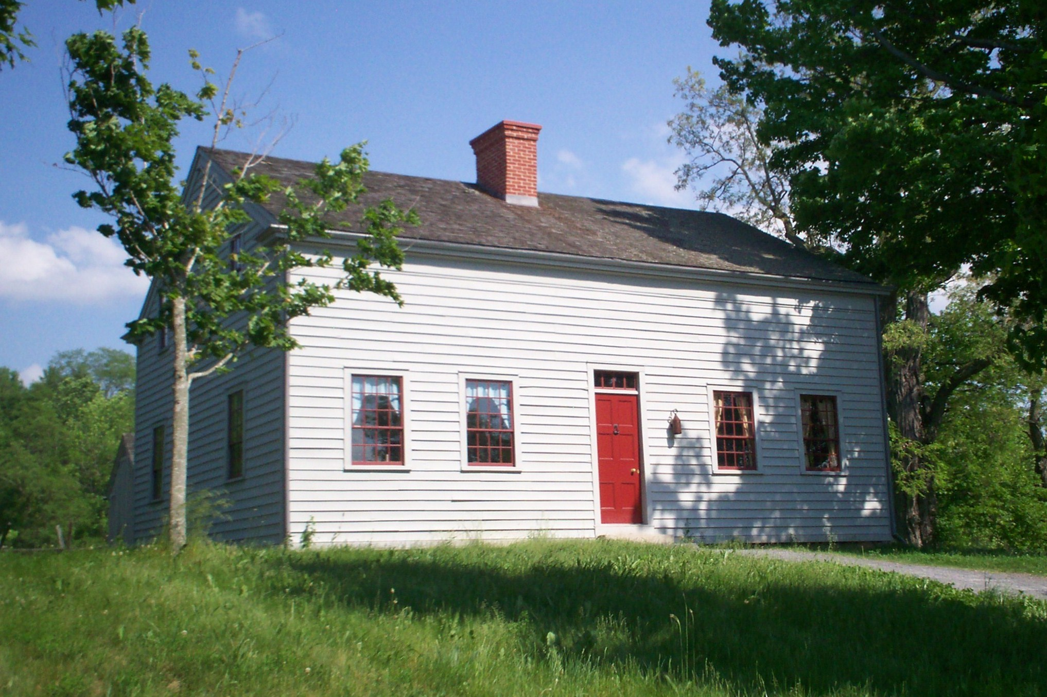 Home of the Joseph Smith Sr. family , known as the "frame home", on the Smith Family Farm in Manchester, New York. The Smiths moved here in 1825, just about 200 yards from their previous log cabin on their property. Smith's oldest son Alvin had begun the home in 1823 shortly before his death. It remained unfinished until 1825 when the family completed the outer walls and roof and moved in with the interior largely unfinished. Some of the translation work of the Book of Mormon took place in the house and the Golden Plates were stored in the house at various times. It was returned to its 1825 appearance after extensive restoration work in 1999-2000.